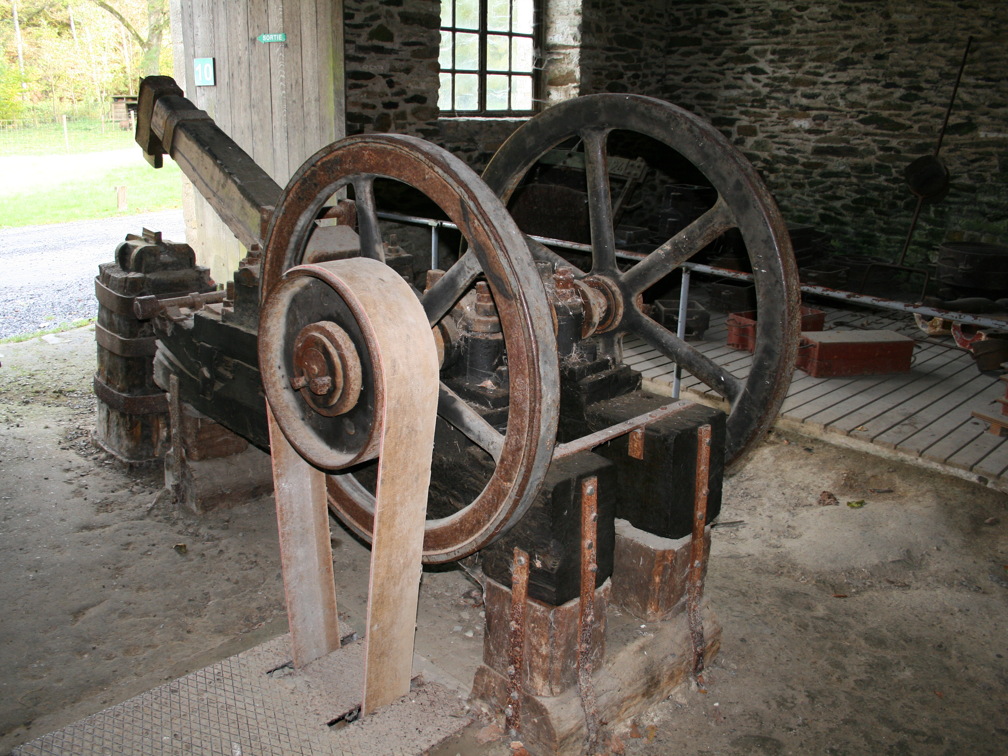 Trip hammer of the St. Michael's Furnace property – Museum of Iron of Saint-Hubert (Belgium).